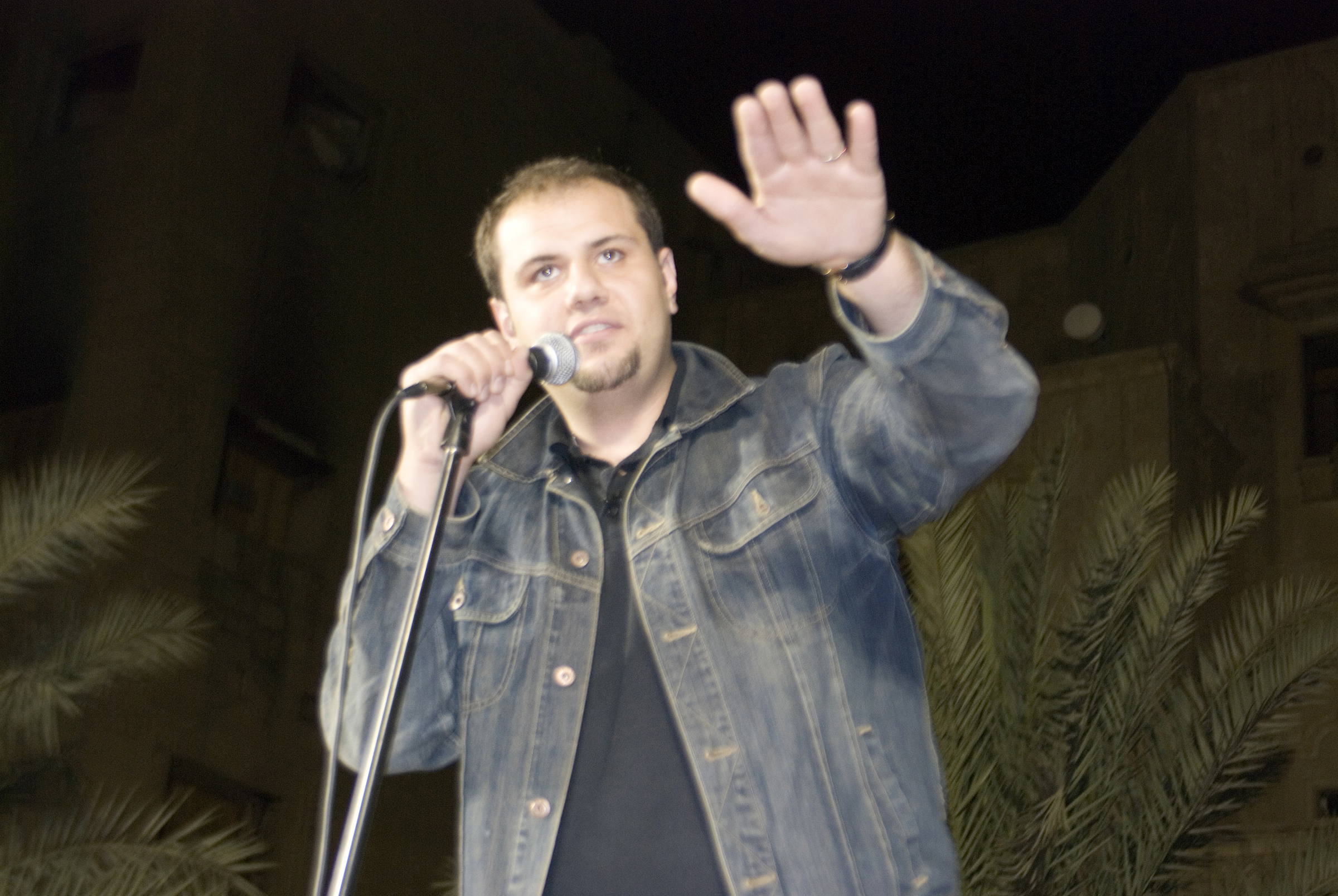 Mohammed Amer is part of a comedy trio that put on a show a Forward Operating Base Prosperity in Baghdad, Feb. 12. The event, which was sponsored by Lone Wolf Entertainment and Morale, Welfare and Recreation, was the first to be held on the FOB's new outdoor stage.